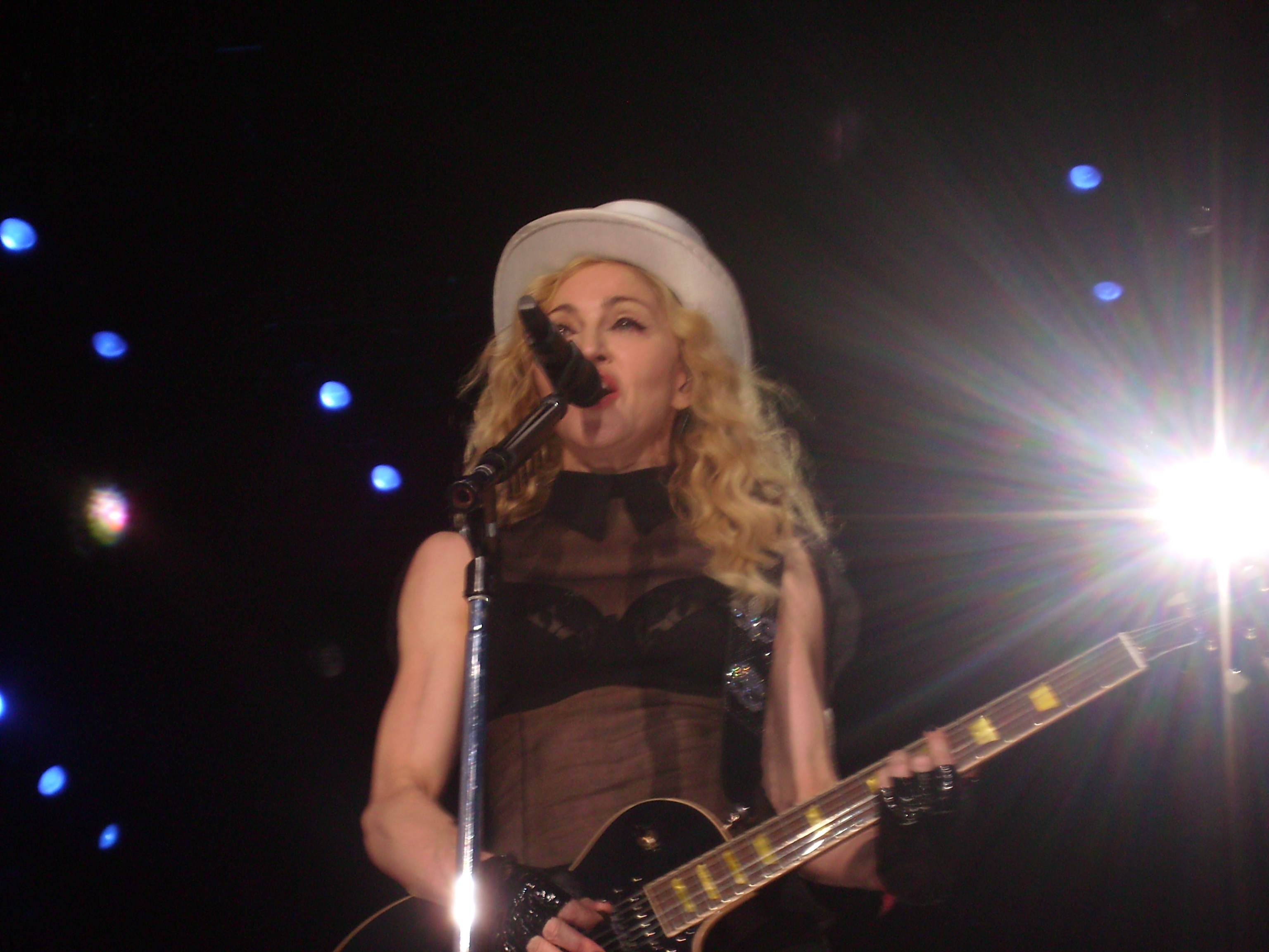 Madonna in Helsinki, Finland, Jätkäsaari 6.8.2009